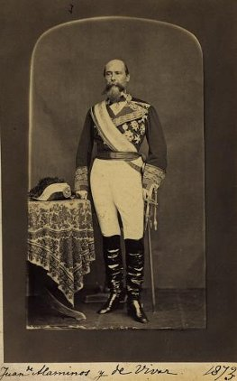 Juan de Alaminos y de Vivar, General-Governor of the Philippines (photo taken 1873).